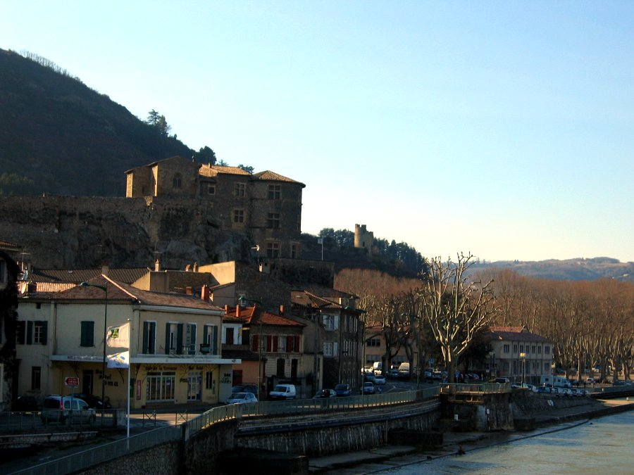 Tournon-sur-Rhône, France in the Ardeche.